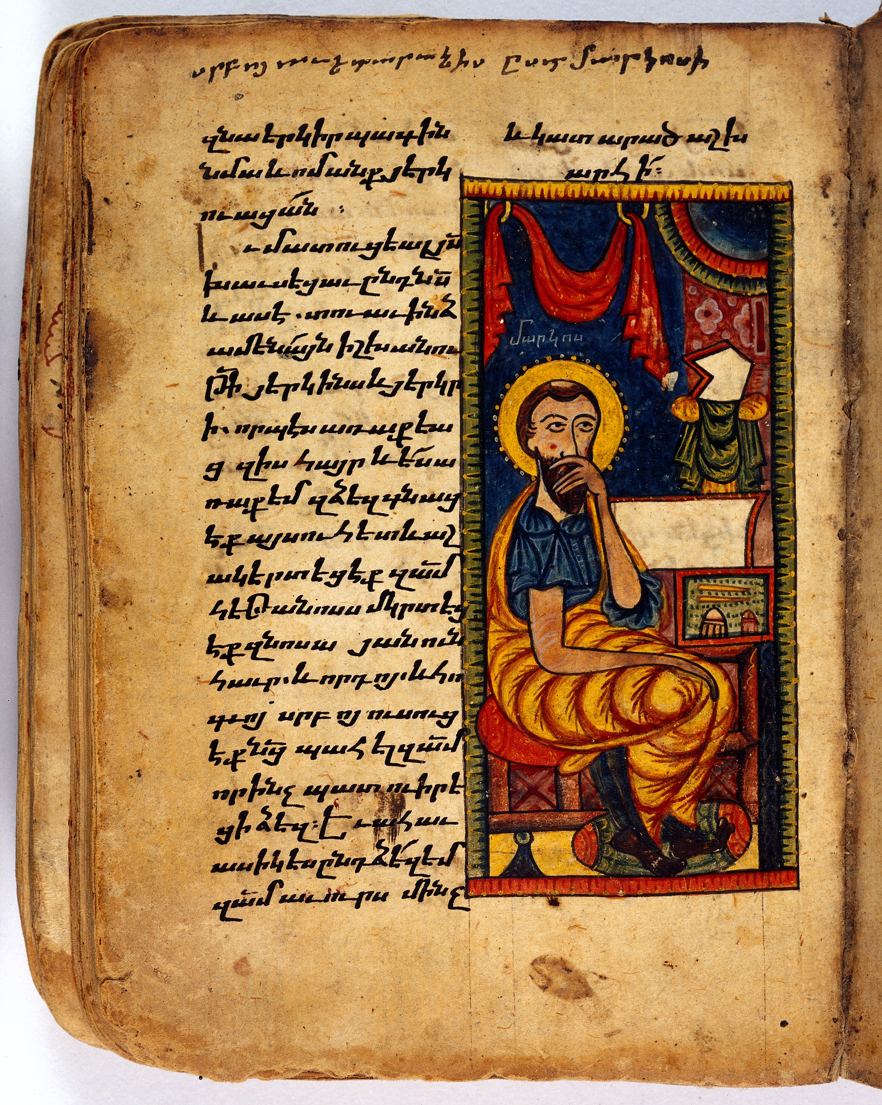 Portrait of St Mark from The Four Gospels, in classical Armenian, written on paper copied and illuminated by Abraham, the priest Asian Collection, Wellcome Library, London Keywords: gospels; apostles; Sacred Subjects; new testament